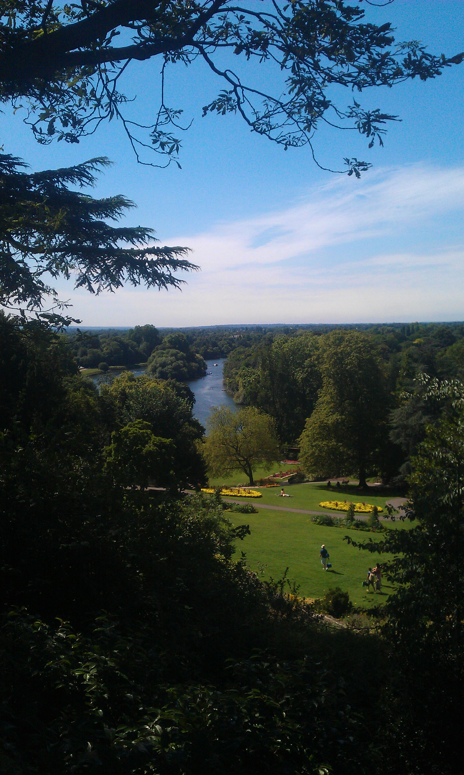 View from Richmond Hill, London